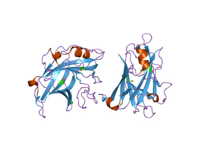 Cartoon representation of the molecular structure of protein registered with 1j83 code.